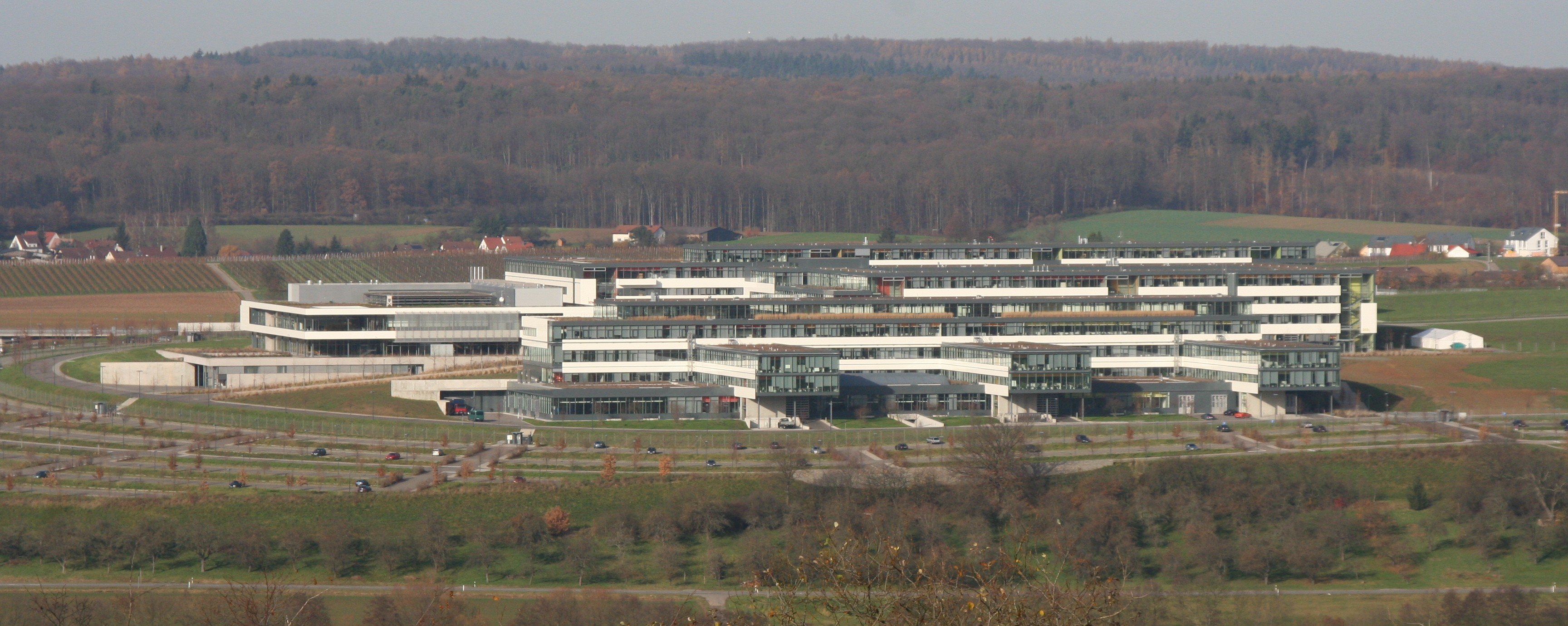 Bosch premises in Abstatt. The parking lot is almost empty because it's a Sunday.